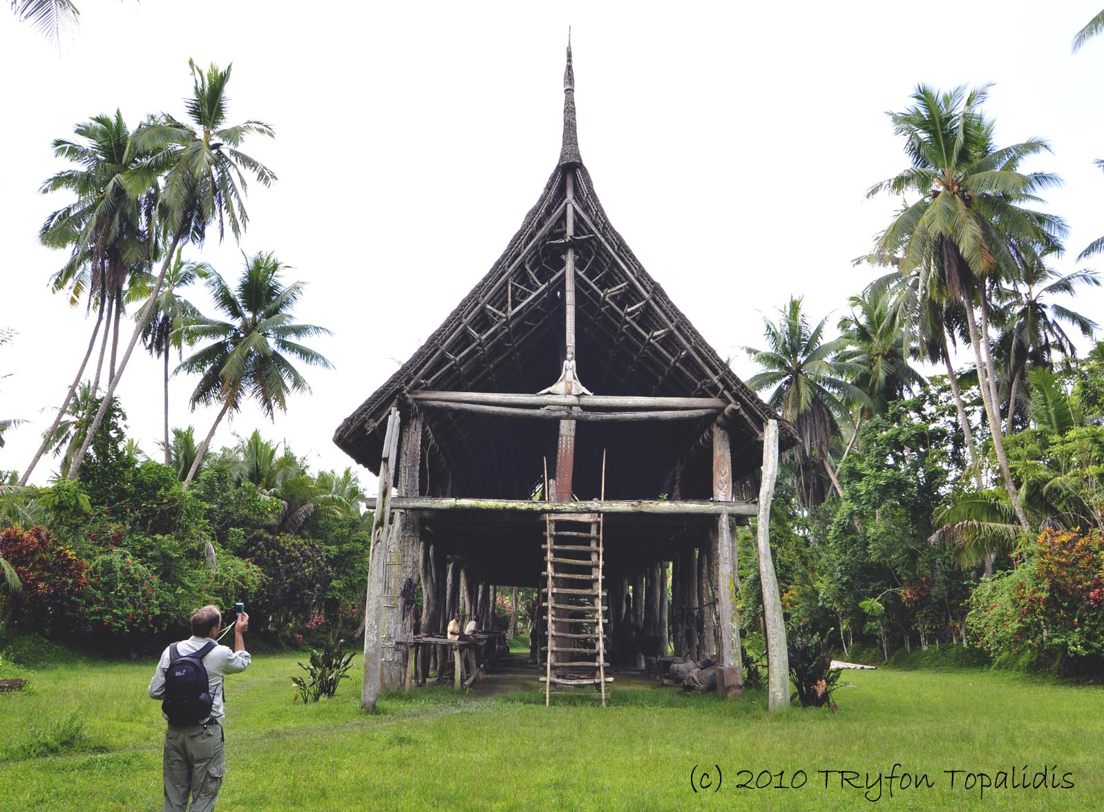 "Haus Tambaran", a sacred house where spirits live, inhabiting sacred carvings and tambu objects.